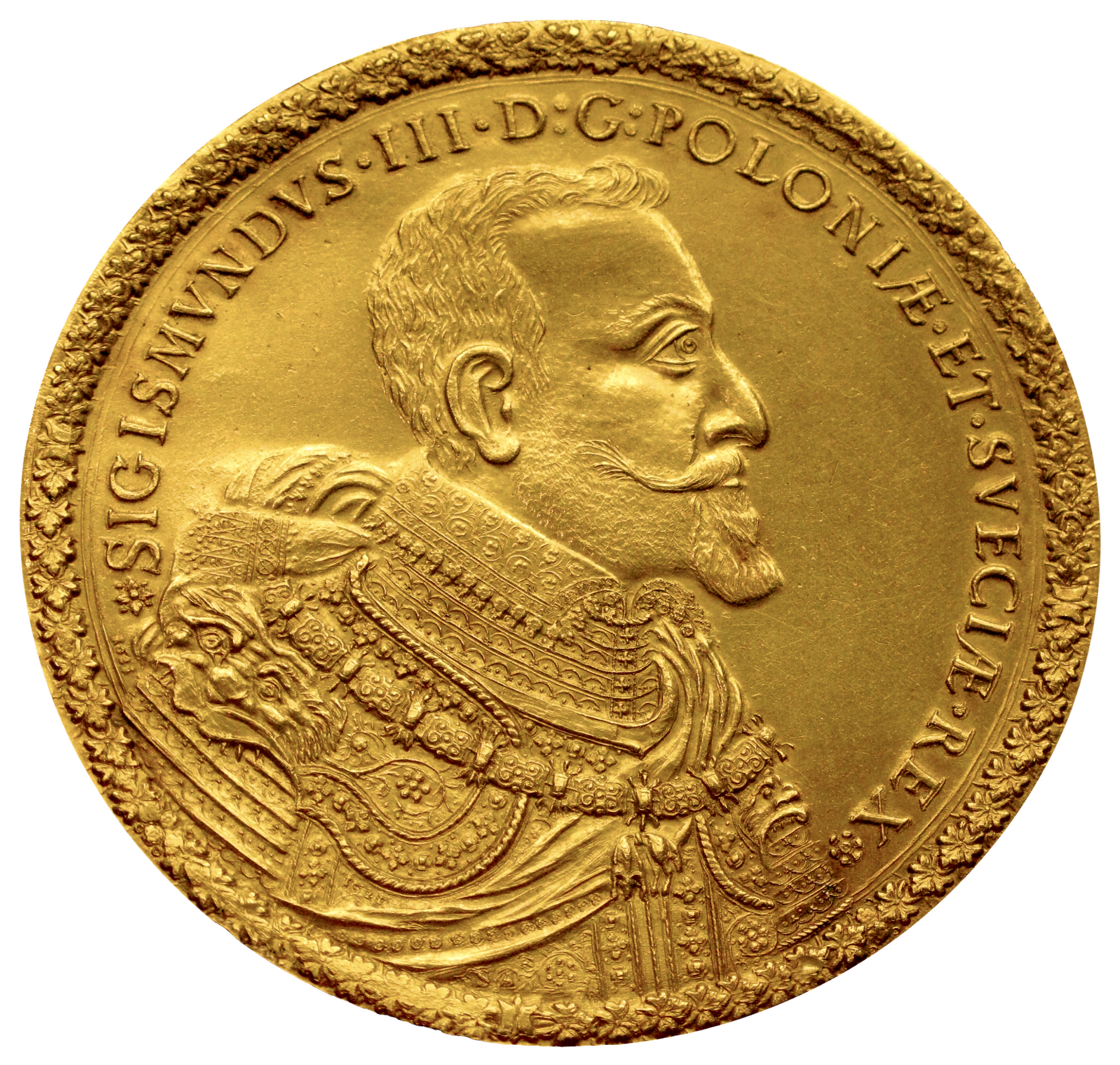 40 ducats of Sigismund III Vasa from 1621, 140 g